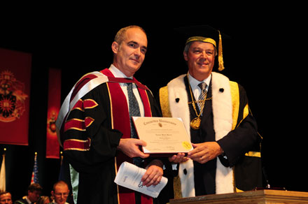 Concordia's Chancellor, L. Jacques Ménard presents Hervé with his diploma